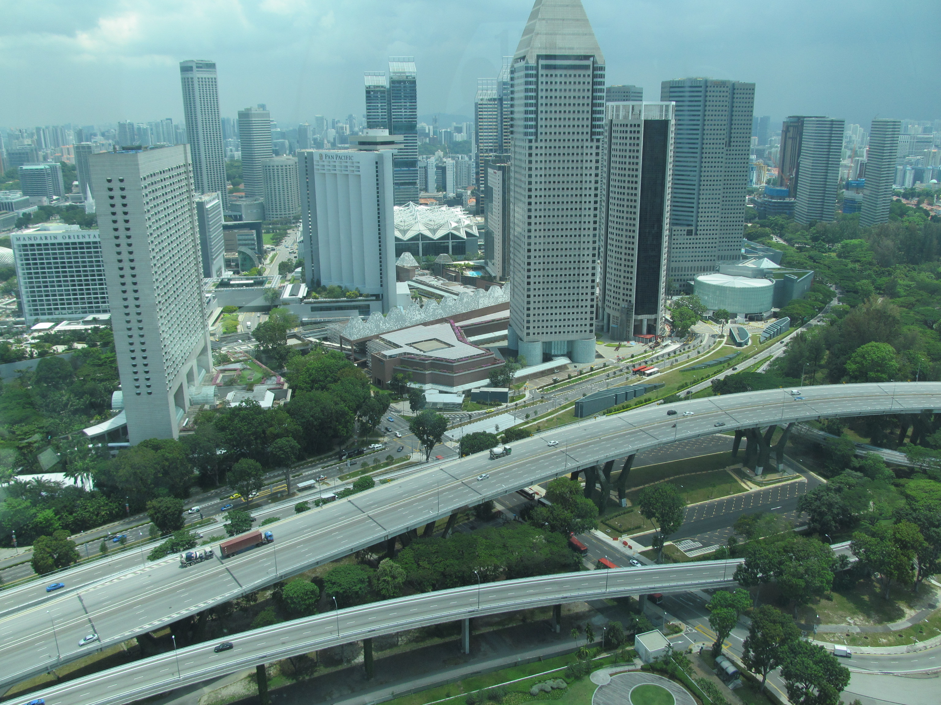 A view of Millenia Singapore from the 165-metre high Singapore Flyer, a large Ferris wheel that is actually taller than the London Eye.